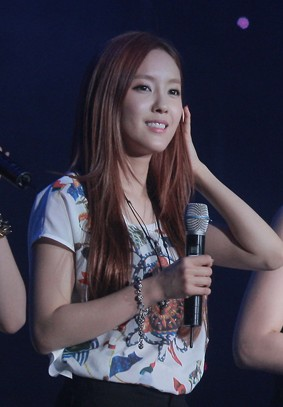 Hyomin at GUESS Party, July 2012